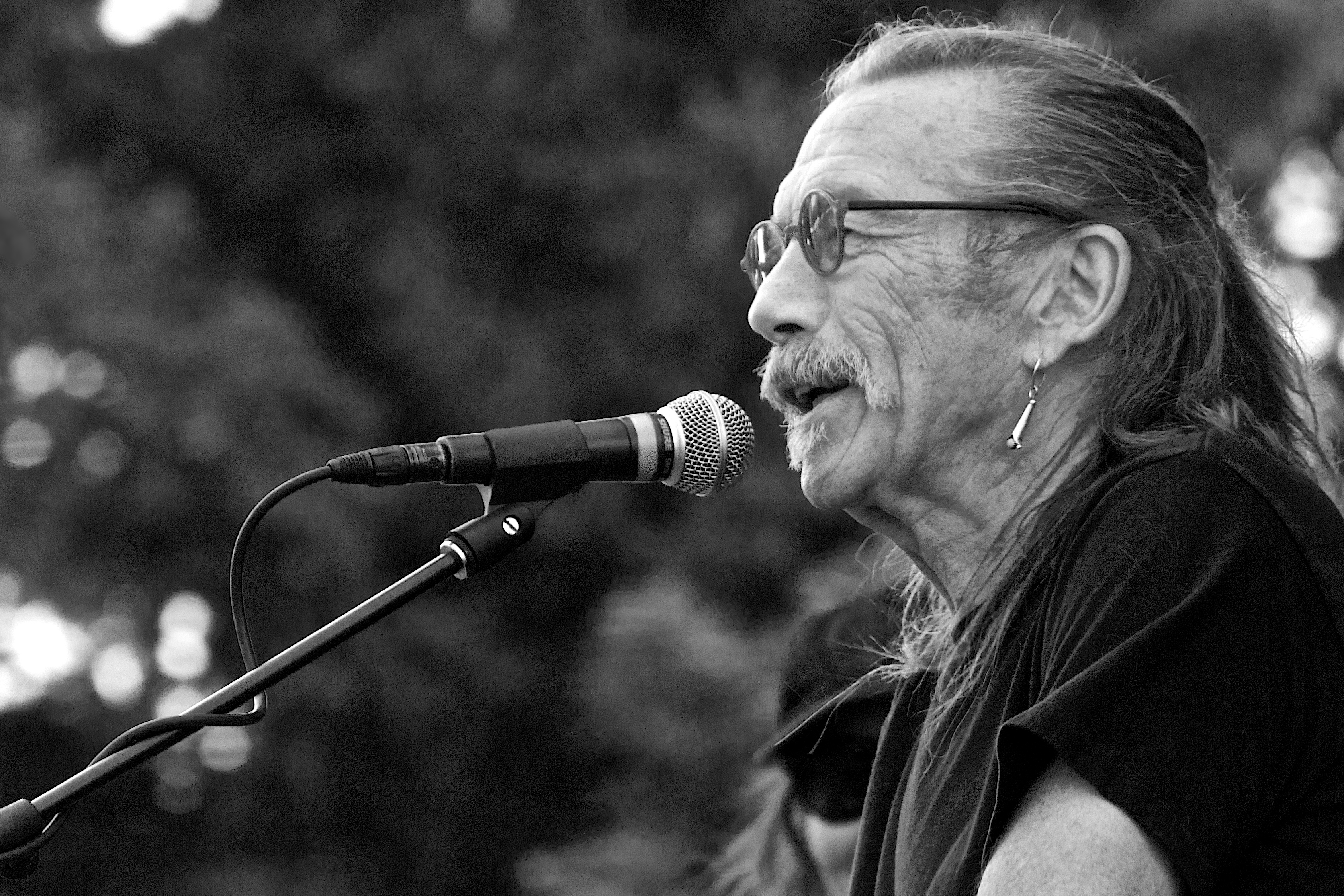 Dave Walker performing at S.L.A.M. 2014 in Bozeman, Montana with the Dave Walker band.